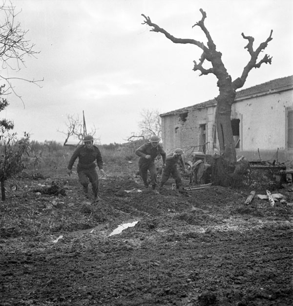 Riflemen of the 48th Highlanders of Canada take cover during a German counterattack north of San Leonardo di Ortona in the Moro River Campaign. (L-R): Private L.N. Welbanks, Sergeant G.D. Adams and Private L.G. Thompson.